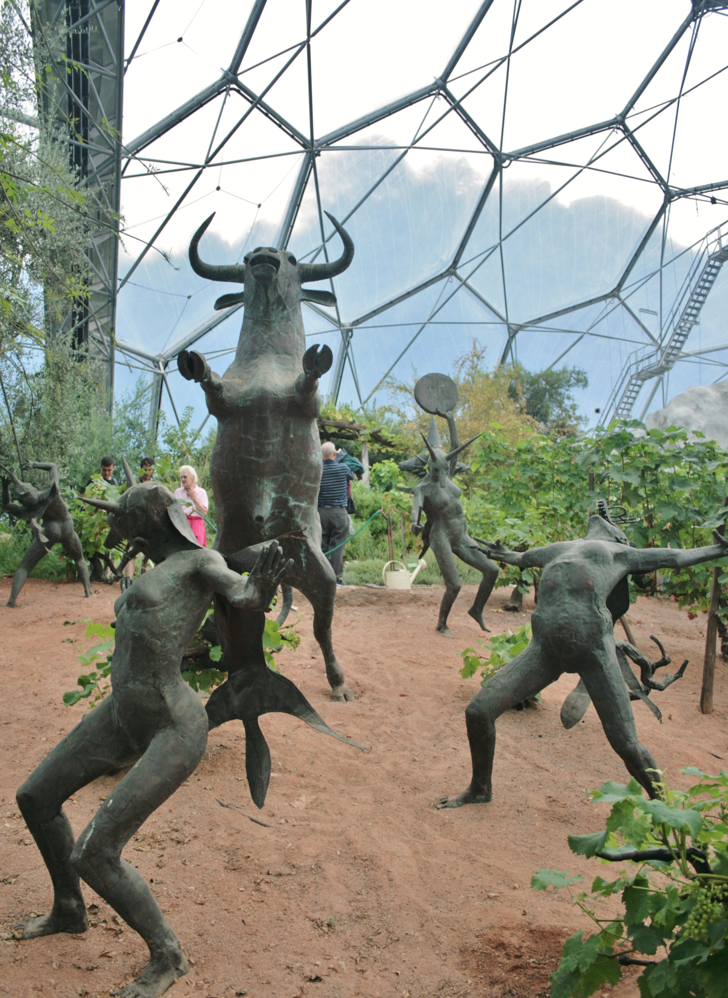 mediterranean Biome- the Sculpture represent The Rites of Dionysus by Tim Shaw